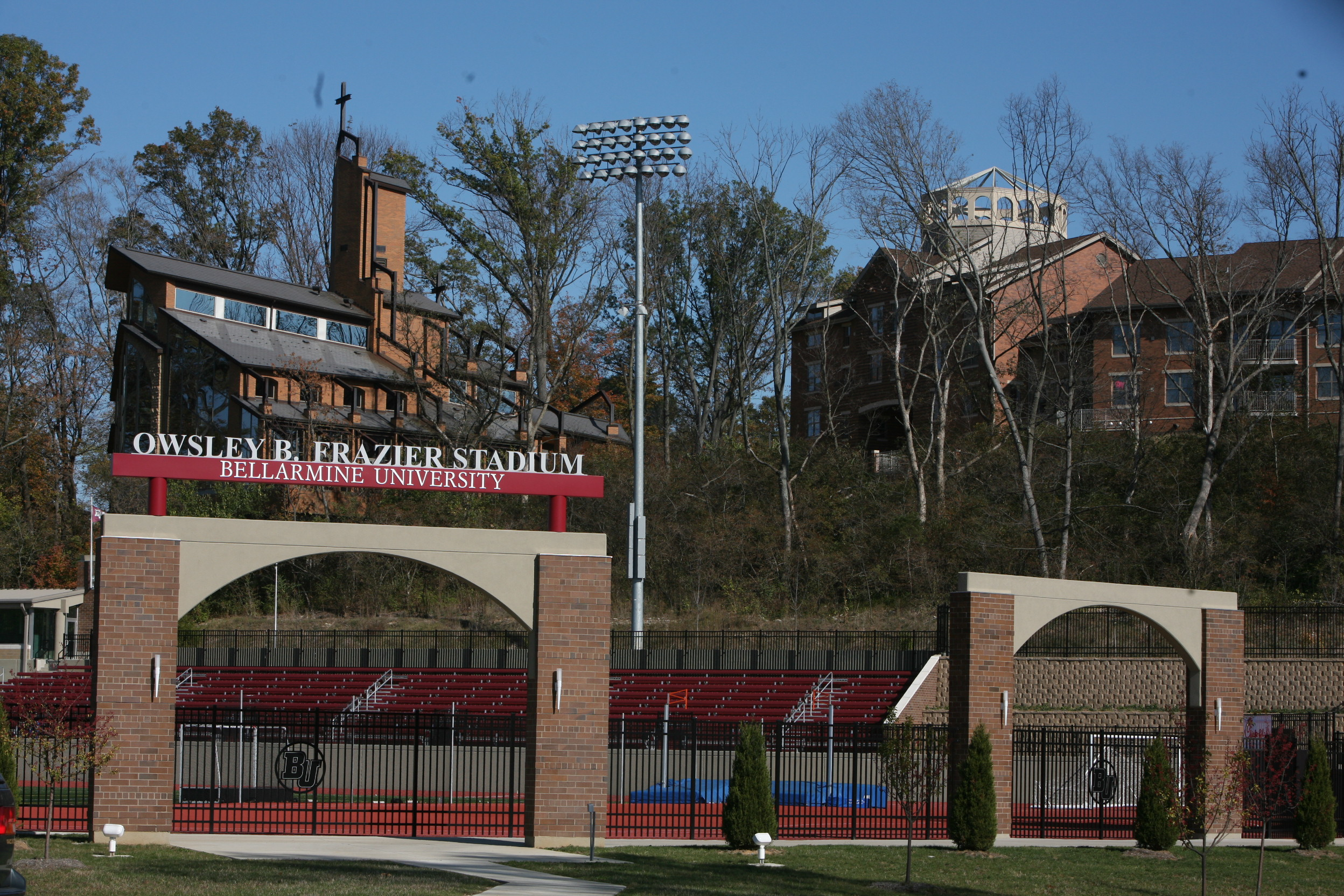 This is a picture I took from Newburg Road of the Owsley B. Frazier Stadium at Bellarmine.